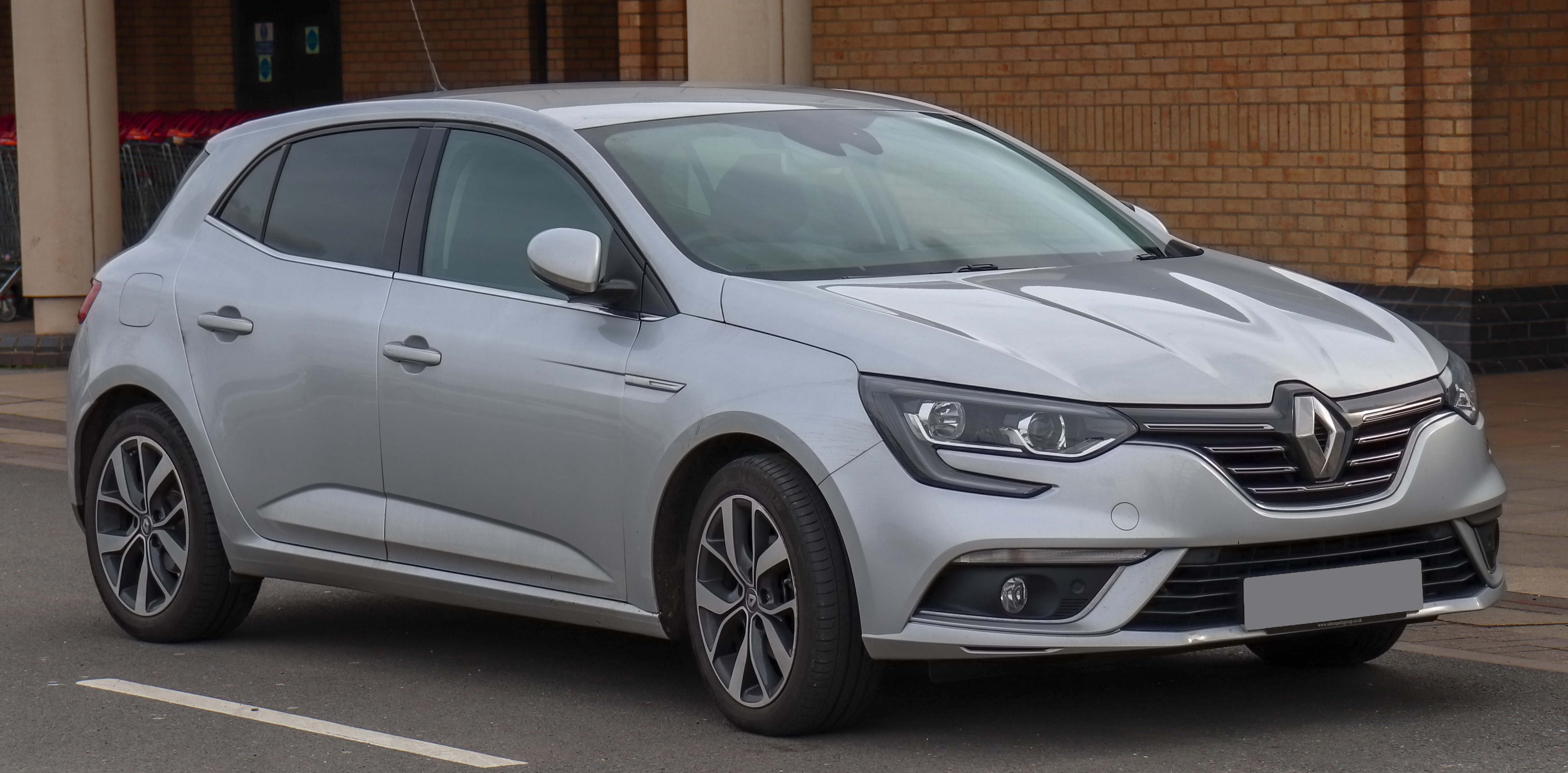 2017 Renault Megane Dynamique S NAV DC 1.5 Front Taken in Leamington Spa